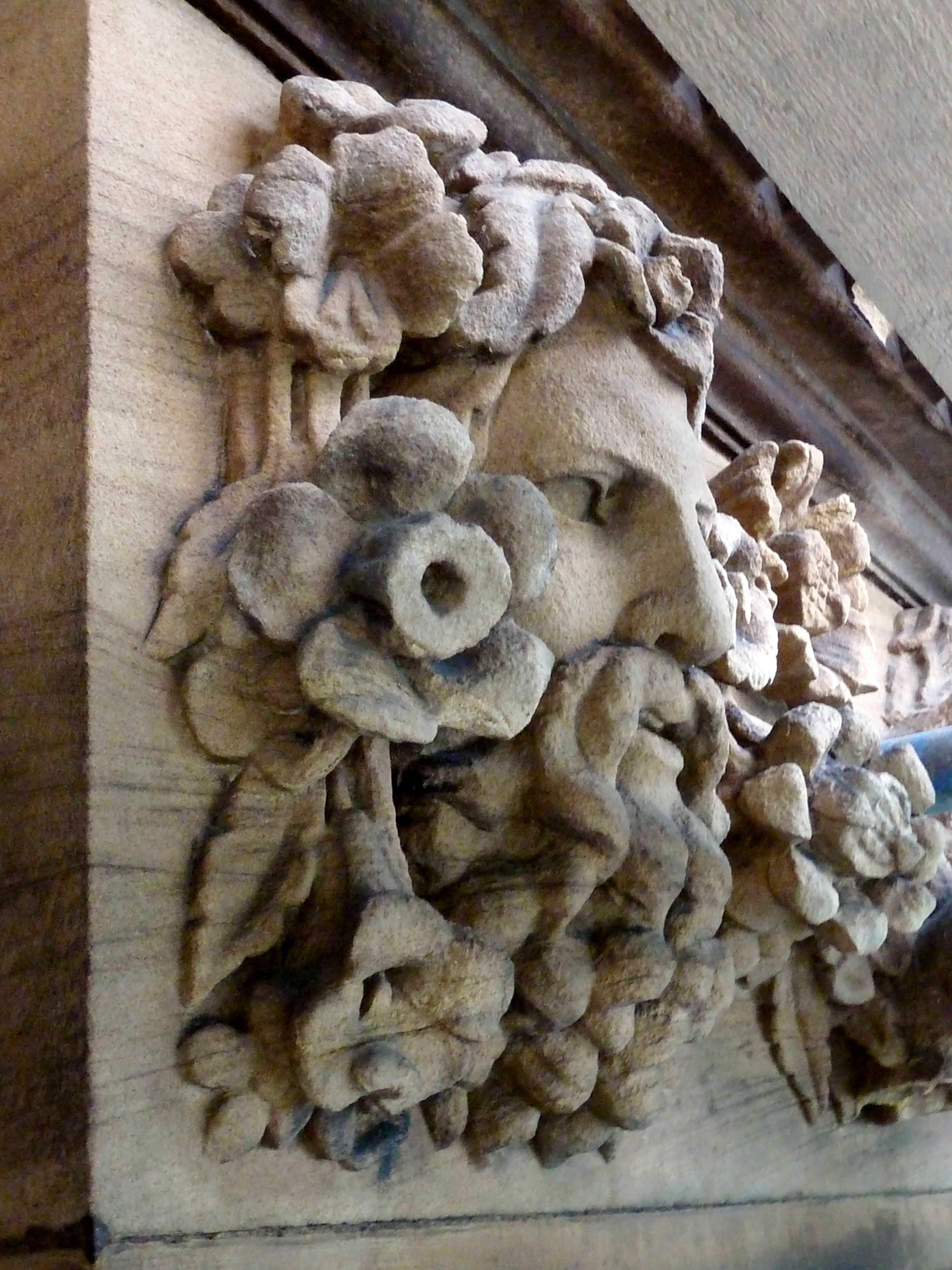 Stone Carvings on Moorlands House, Albion Street, Leeds, West Yorkshire, England. As of November 2016 the building was occupied by Starbucks. The photograph was taken from the scaffolding, which was erected for stone-cleaning. The carving is credited to Robert Mawer. This character could be Zeus, garlanded by Europa ... or perhaps Dionysius (Bacchus) without the grapes, in deference to the Temperance Movement.